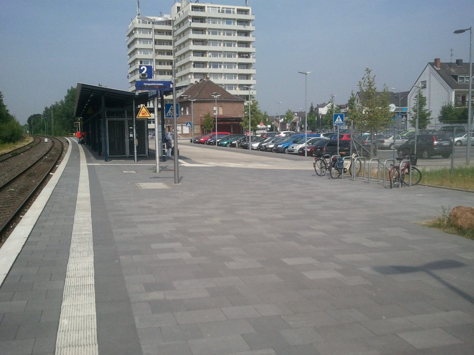 Train station Quadrath Ichendorf